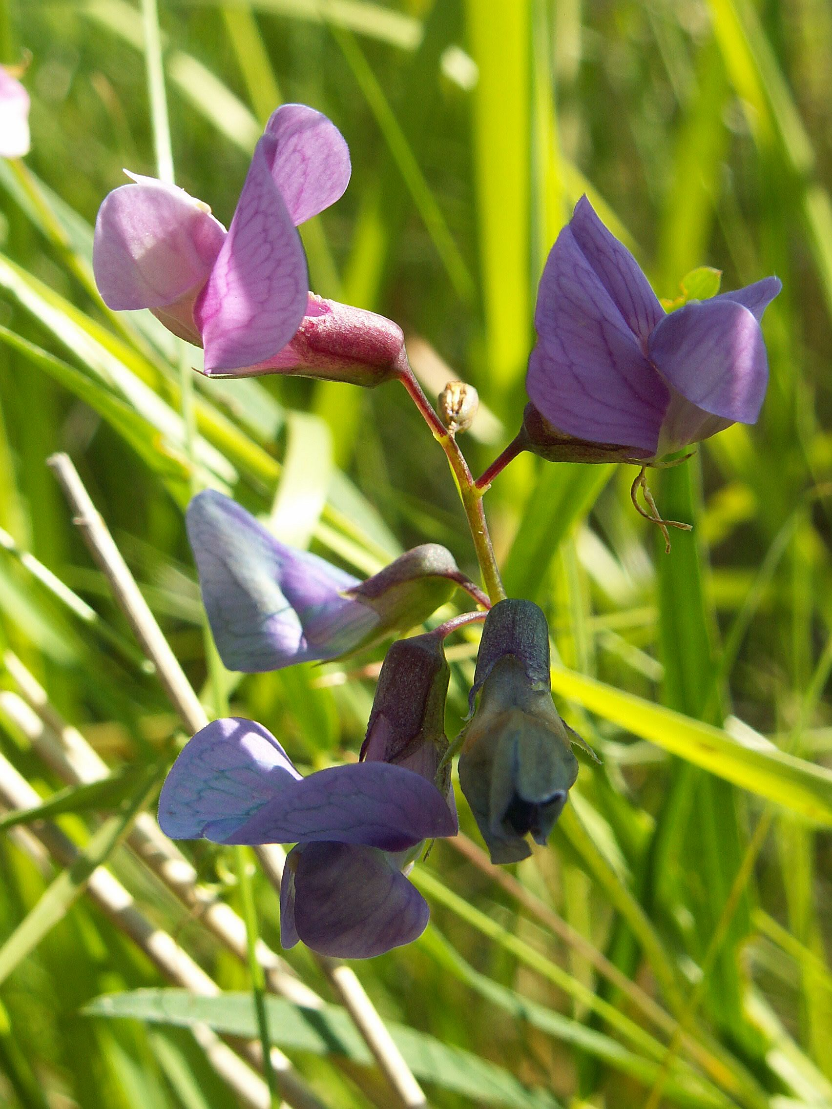 Flowers of Lathyrus paluster. Karsibórz near Swinoujscie, NW Poland.